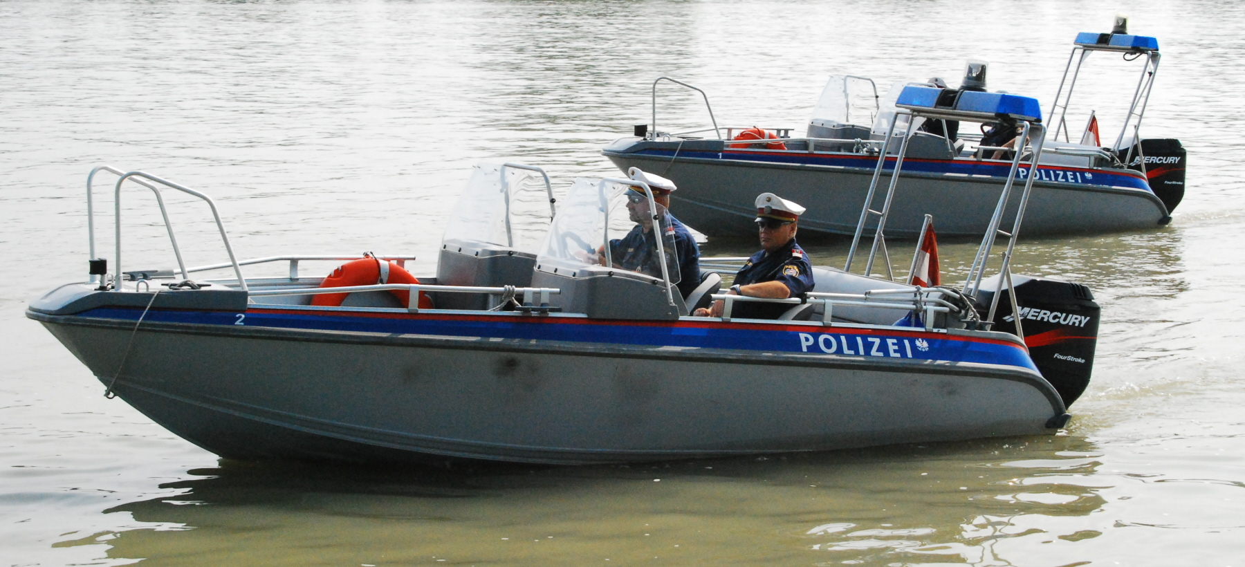 Austria, Vienna, Danube